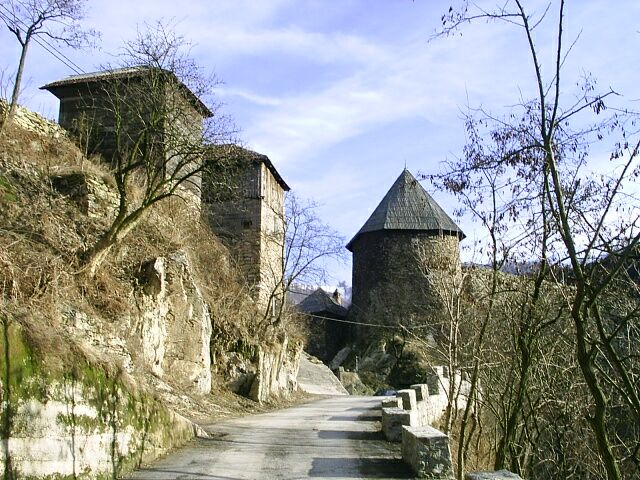 The village of Vranduk with a neighbouring castle, BiH